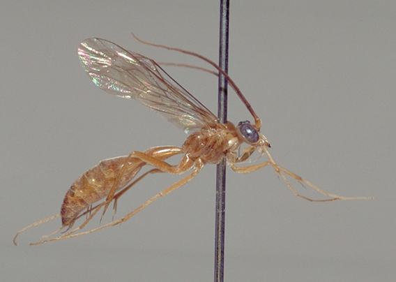 Rhopalosoma species, a Rhopalosomatid wasp.